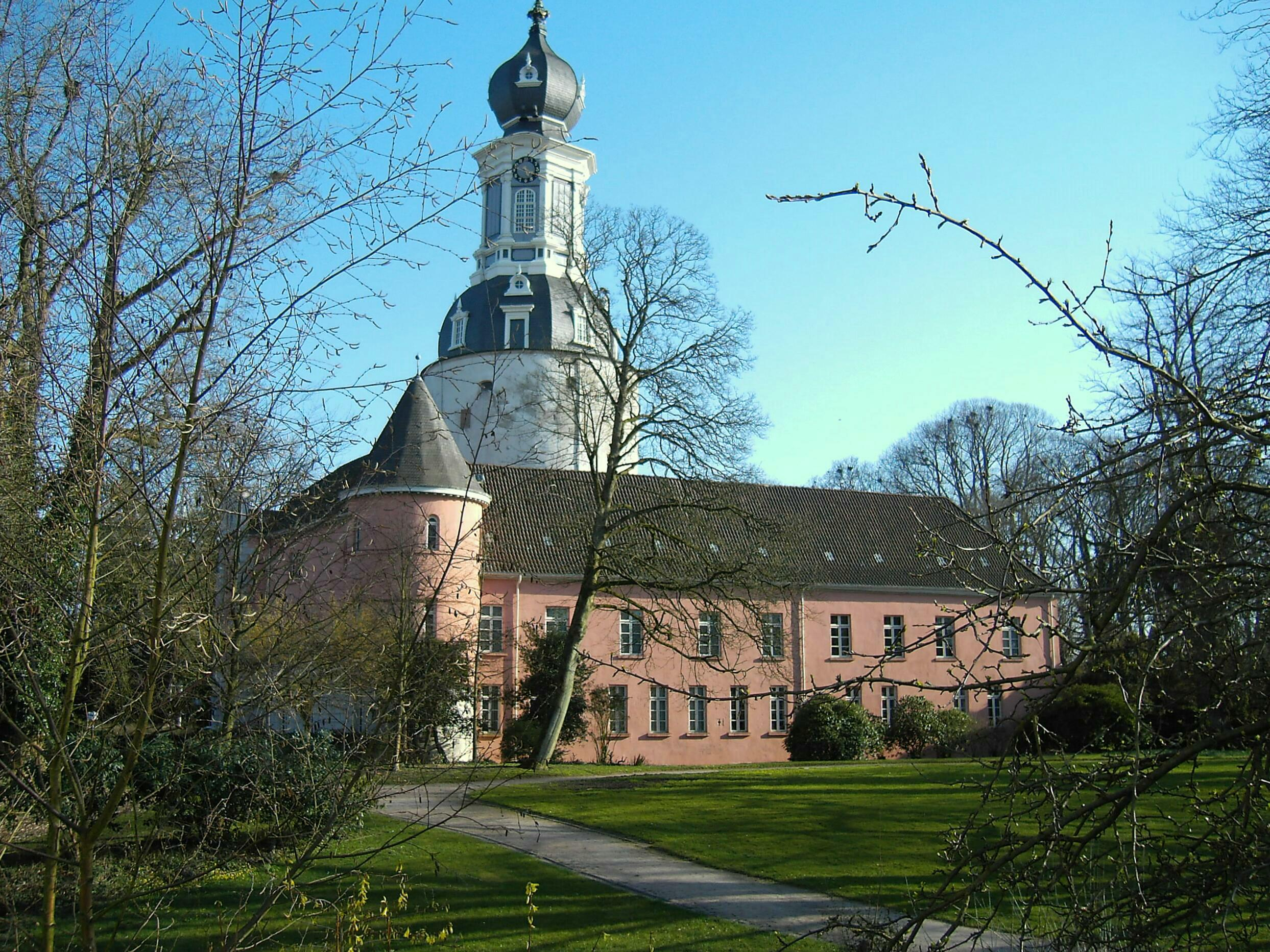 Schloss Jever in Jever